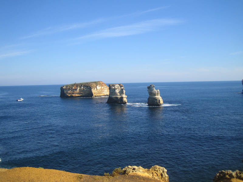 Photo captured by H. Cummins. Released under free license for public domain.